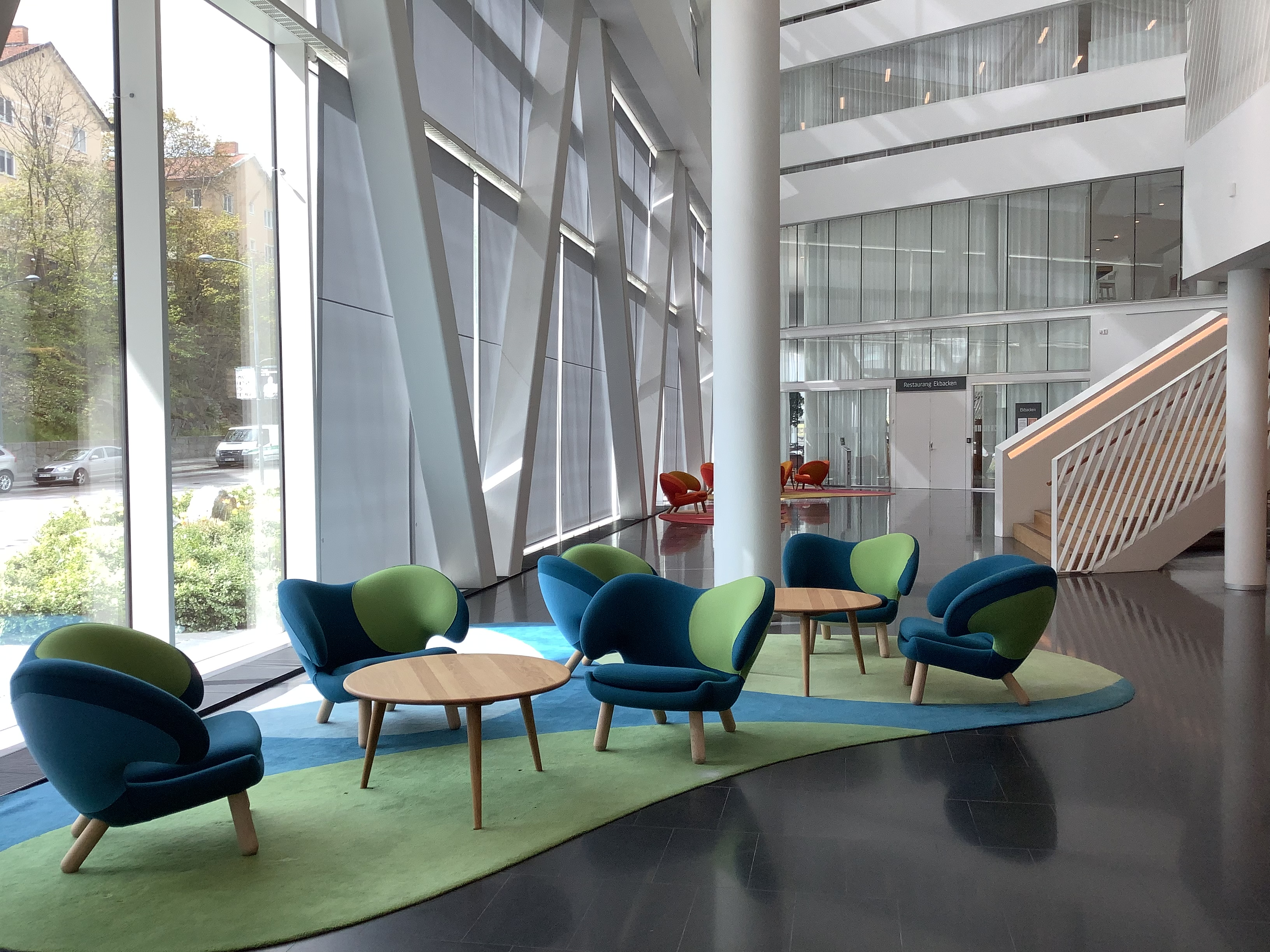 Pelican Chair (1940) designed by Finn Juhl in the lobby area of Swedbank headquarters in Sundbyberg